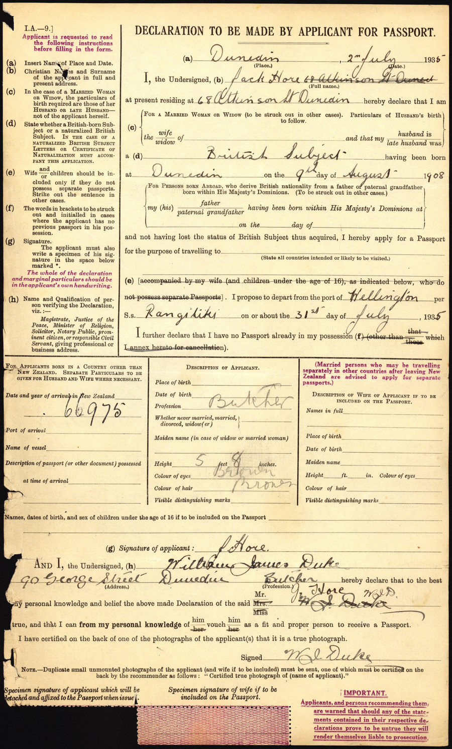 Archives New Zealand Reference: ACGO 8333 IA1 1350 / 15/11/59182